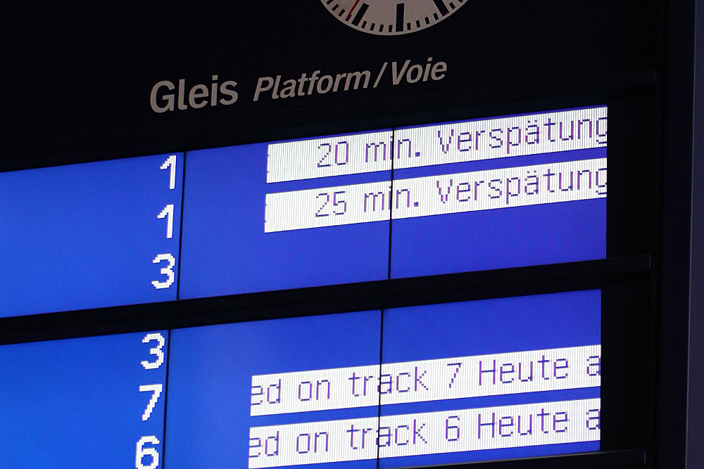 A LCD display in a train station hall provides information on train service delays and incidents.